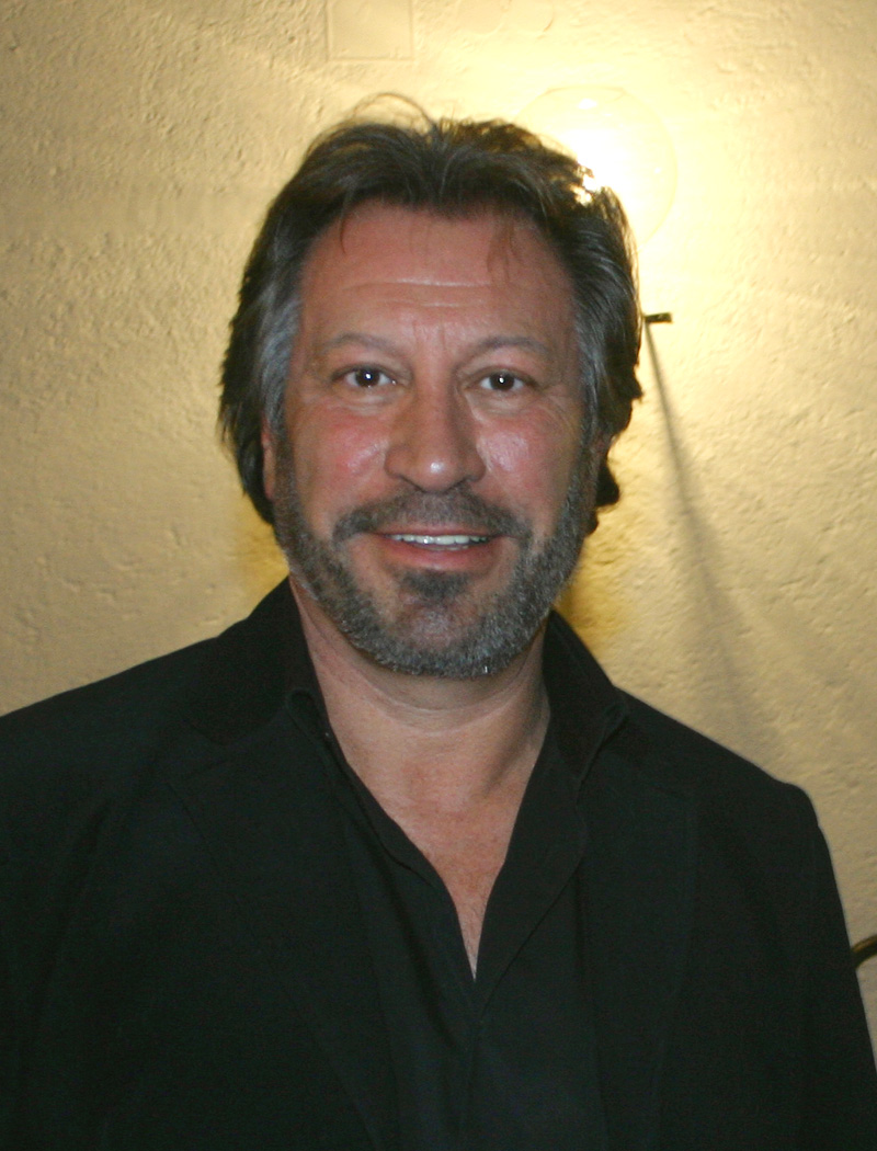 Der Schauspieler Michael Zittel im November 2007 in München.